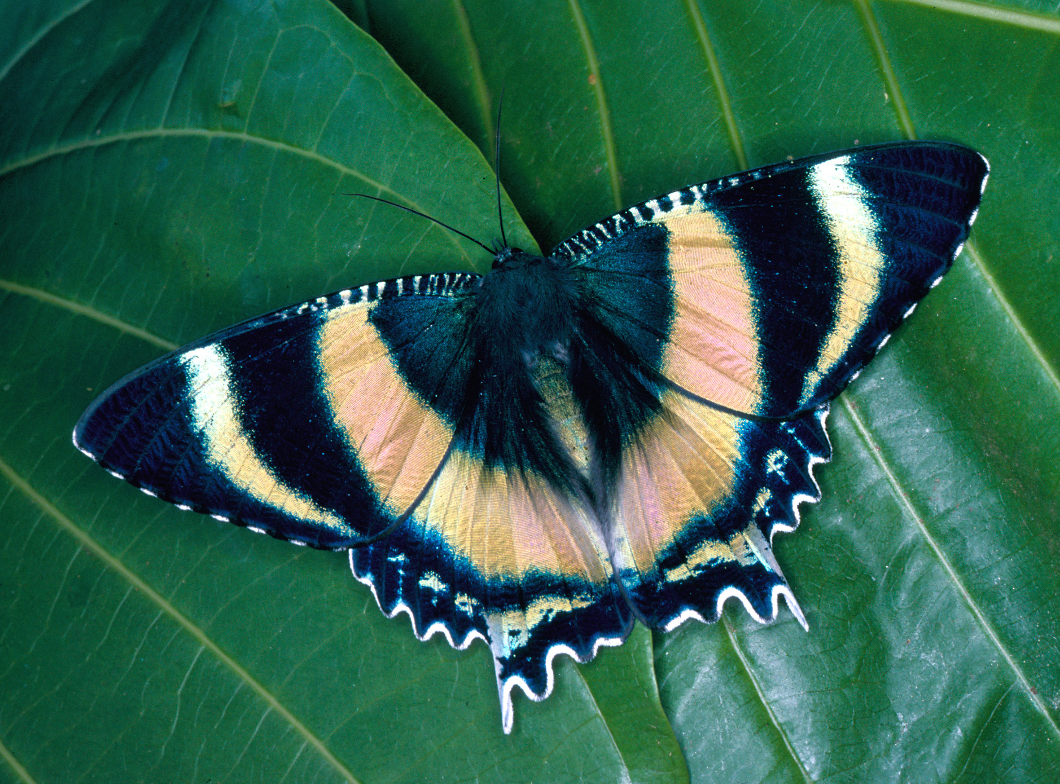 Zodiac moth